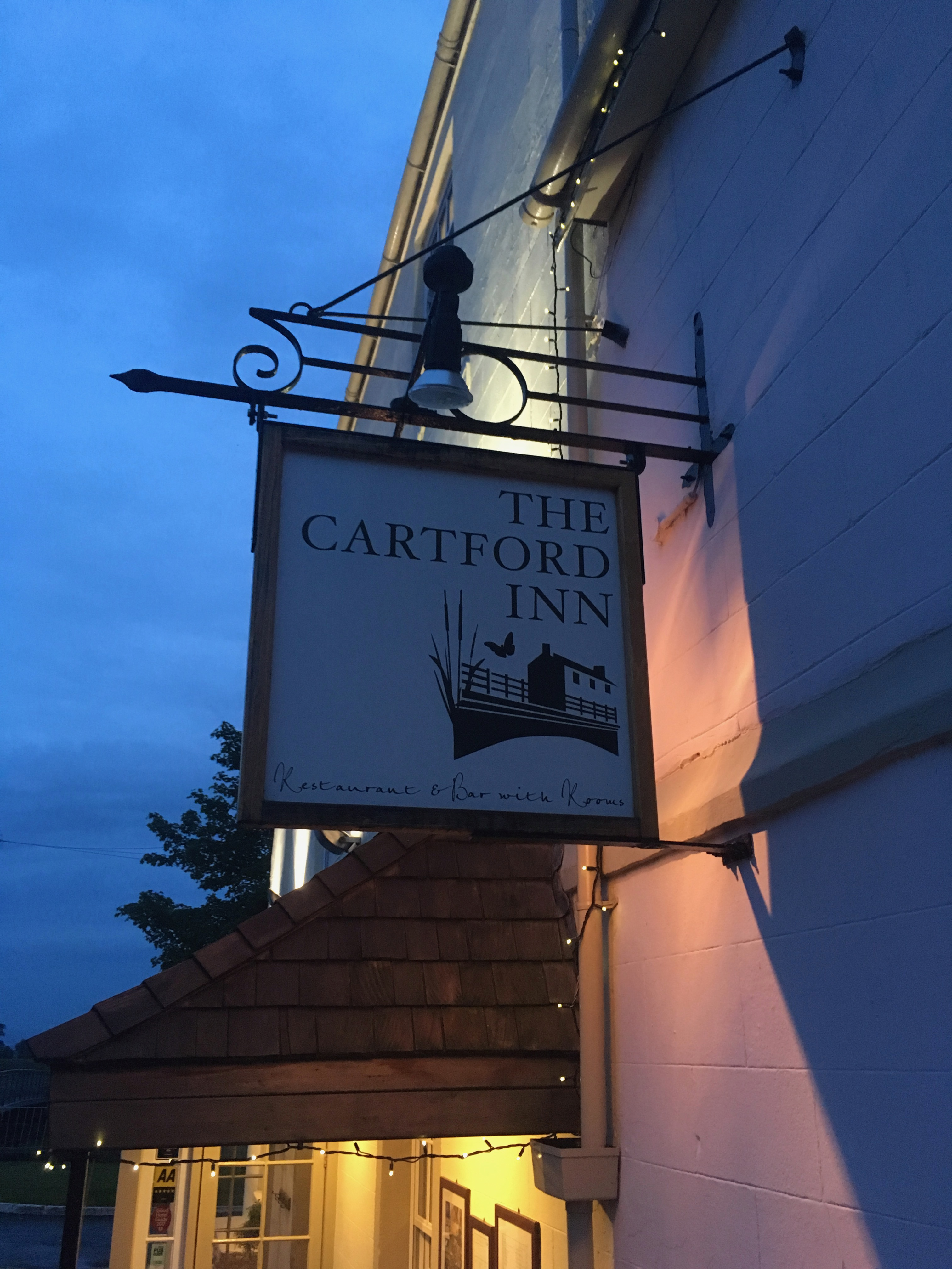 The Cartford Inn sign, Little Eccleston, England.